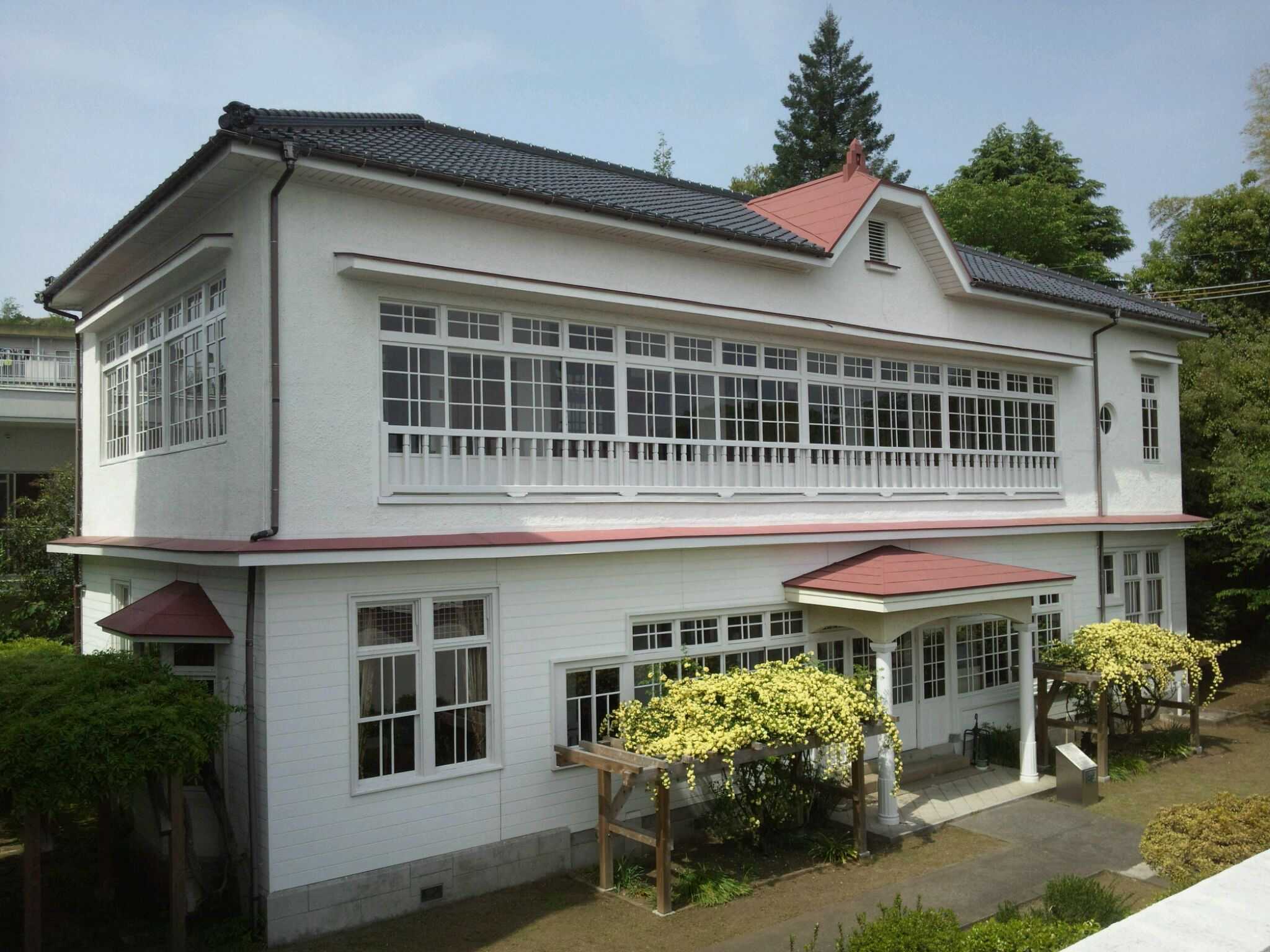 Previously the laboratory of the Kaishun Hospital, the first leprosy hospital in Kumamoto, Japan